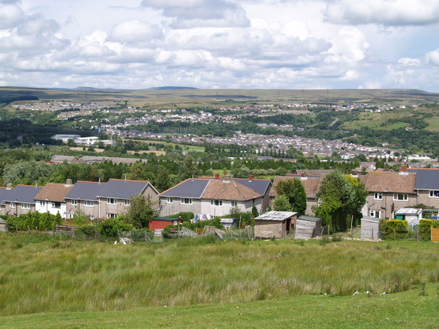 Ebbw Vale, panorama